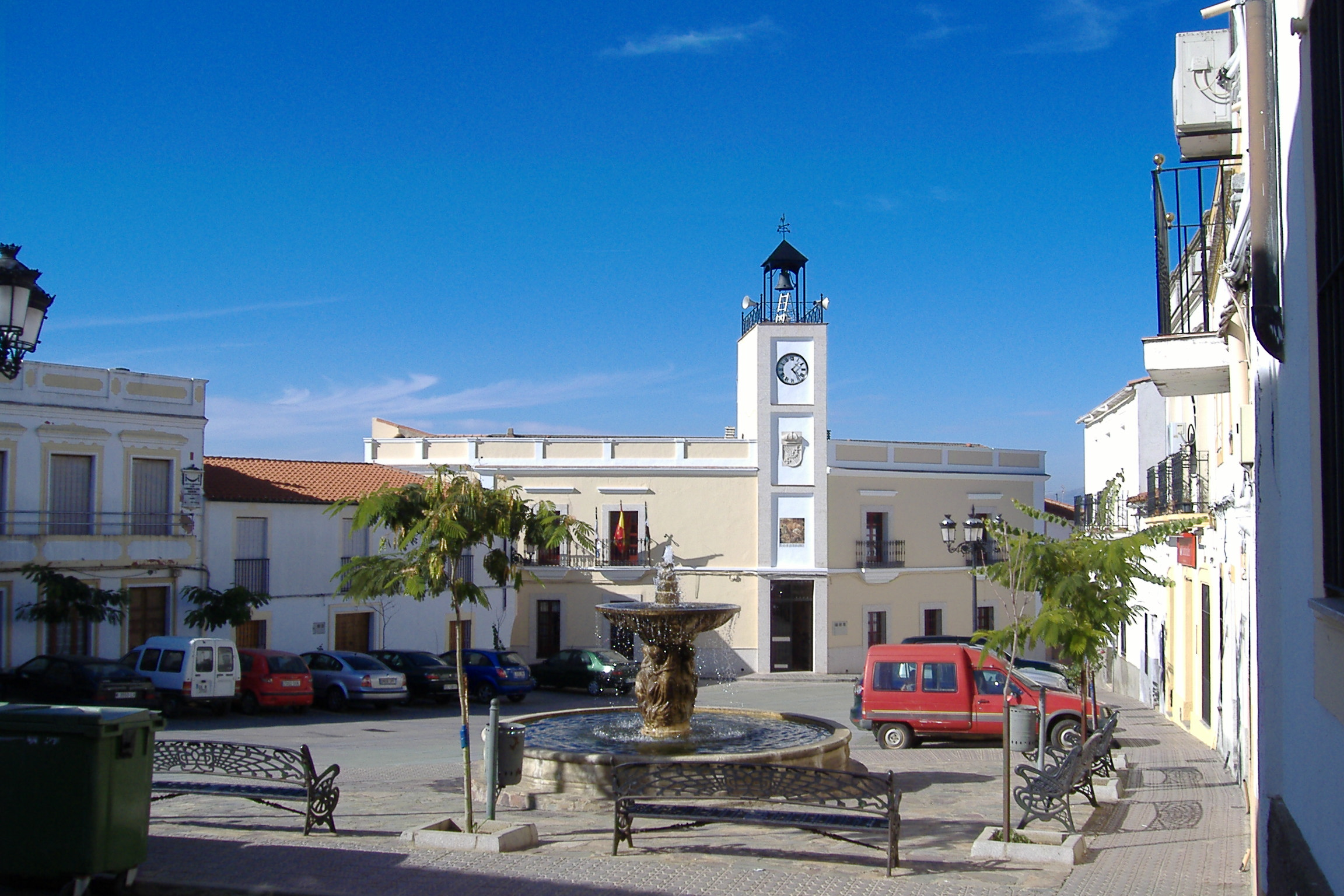 Herradores Square and Town Hall of Talaván (Extremadura, Spain)